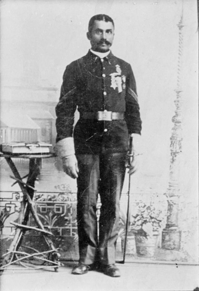 Brent Woods, Medal of Honor recipient. This photograph was part of the material prepared by W.E.B. Du Bois for the Negro Exhibit of the American Section at the Paris Exposition Universelle in 1900 to show the economic and social progress of African Americans since emancipation.